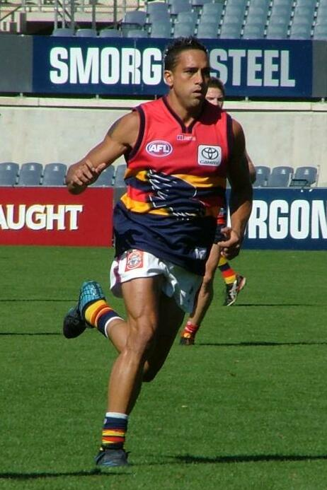 Andrew McLeod with the Adelaide Crows